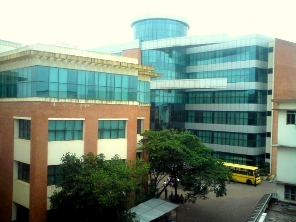 MIT's New Lecture Hall and Innovation Centre